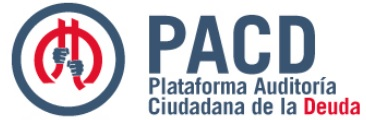 logo Plataforma Auditoría Ciudadana de la Deuda PACD web published under license CC BY SA